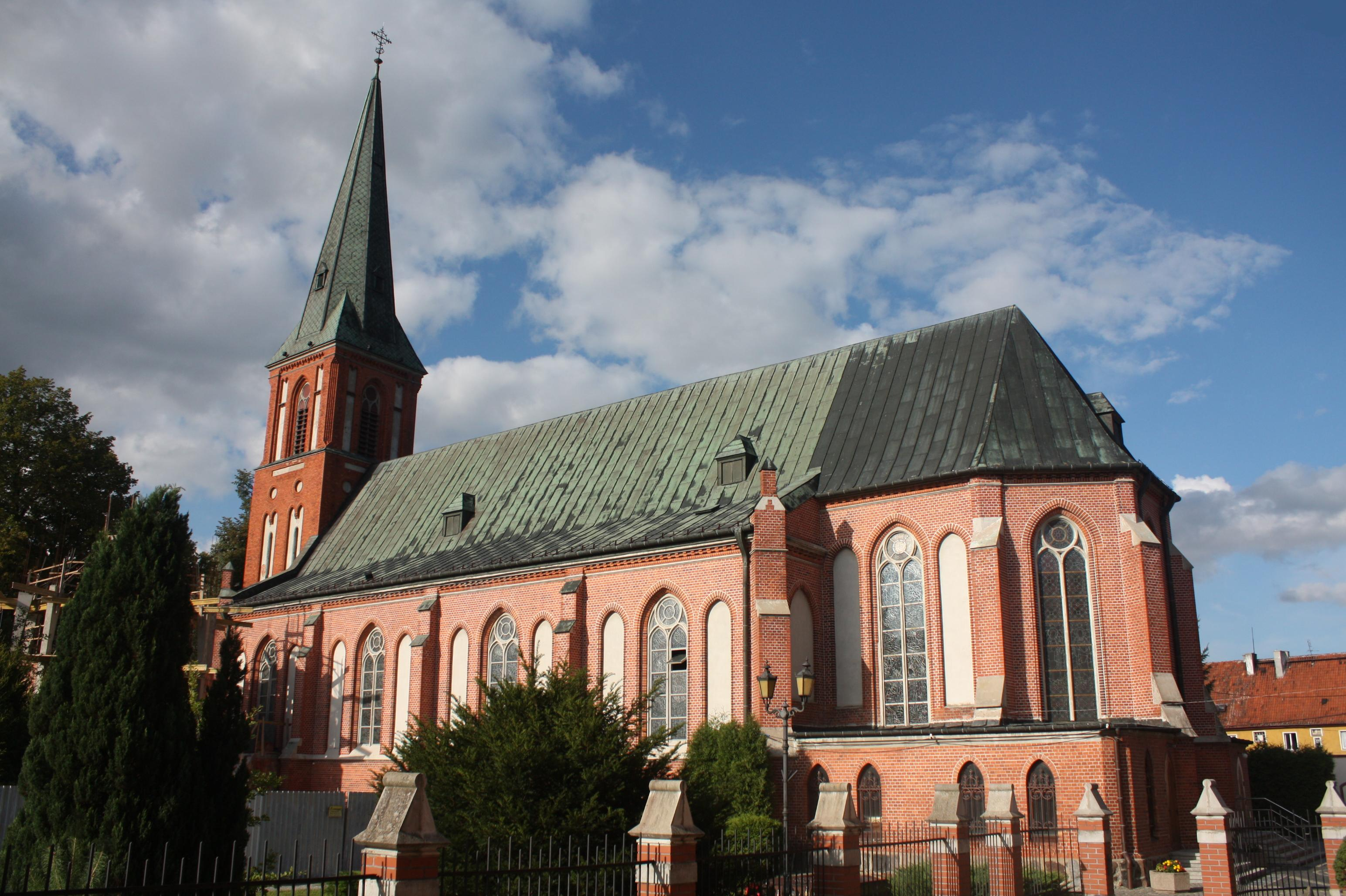 This photo of Warmian-Masurian Voivodeship was taken during Wikiexpedition 2012 set up by Wikimedia Polska Association. You can see all photographs in category Wikiekspedycja 2012. The making of this document was supported by Wikimedia Polska.